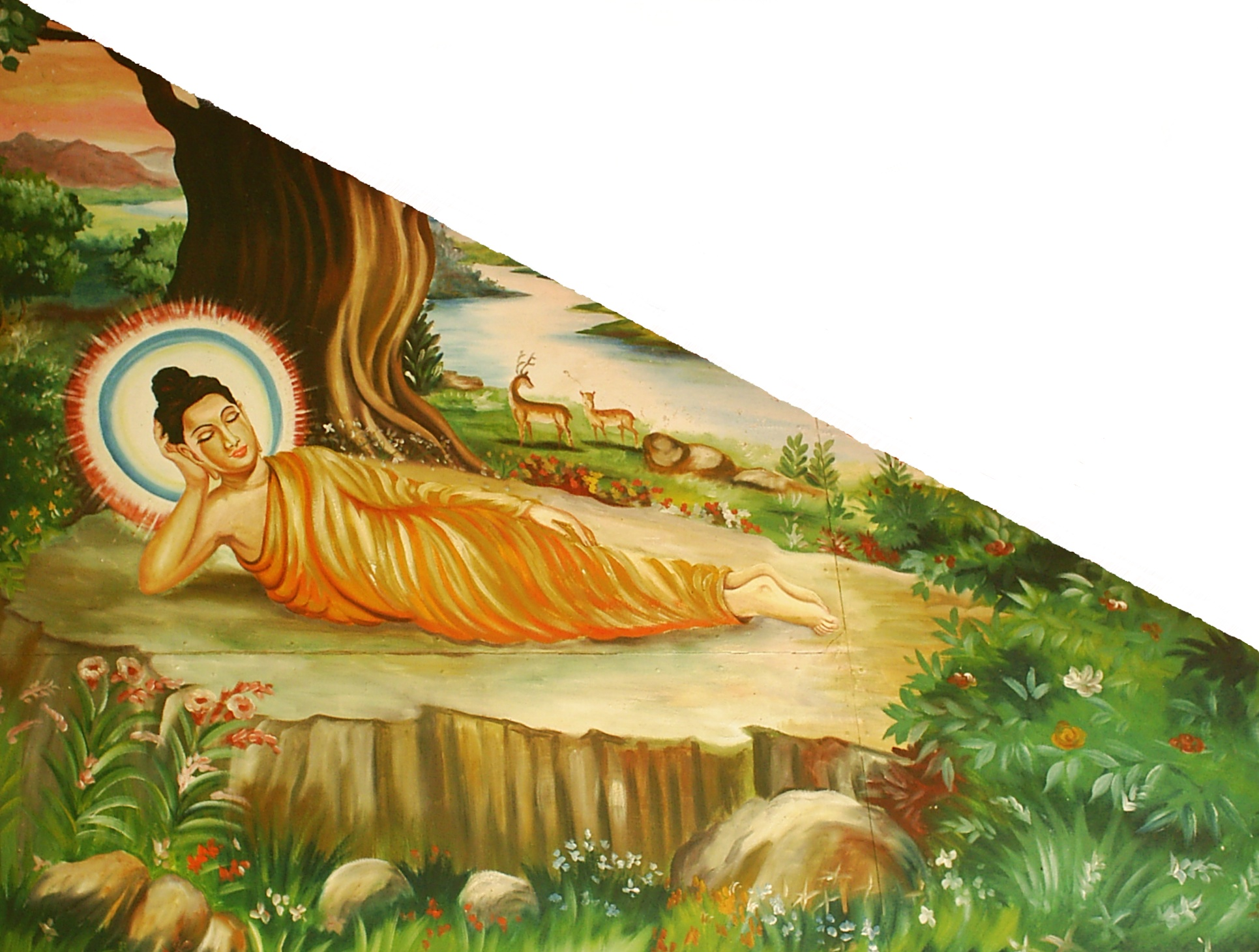 Buddha in Reclining Posture